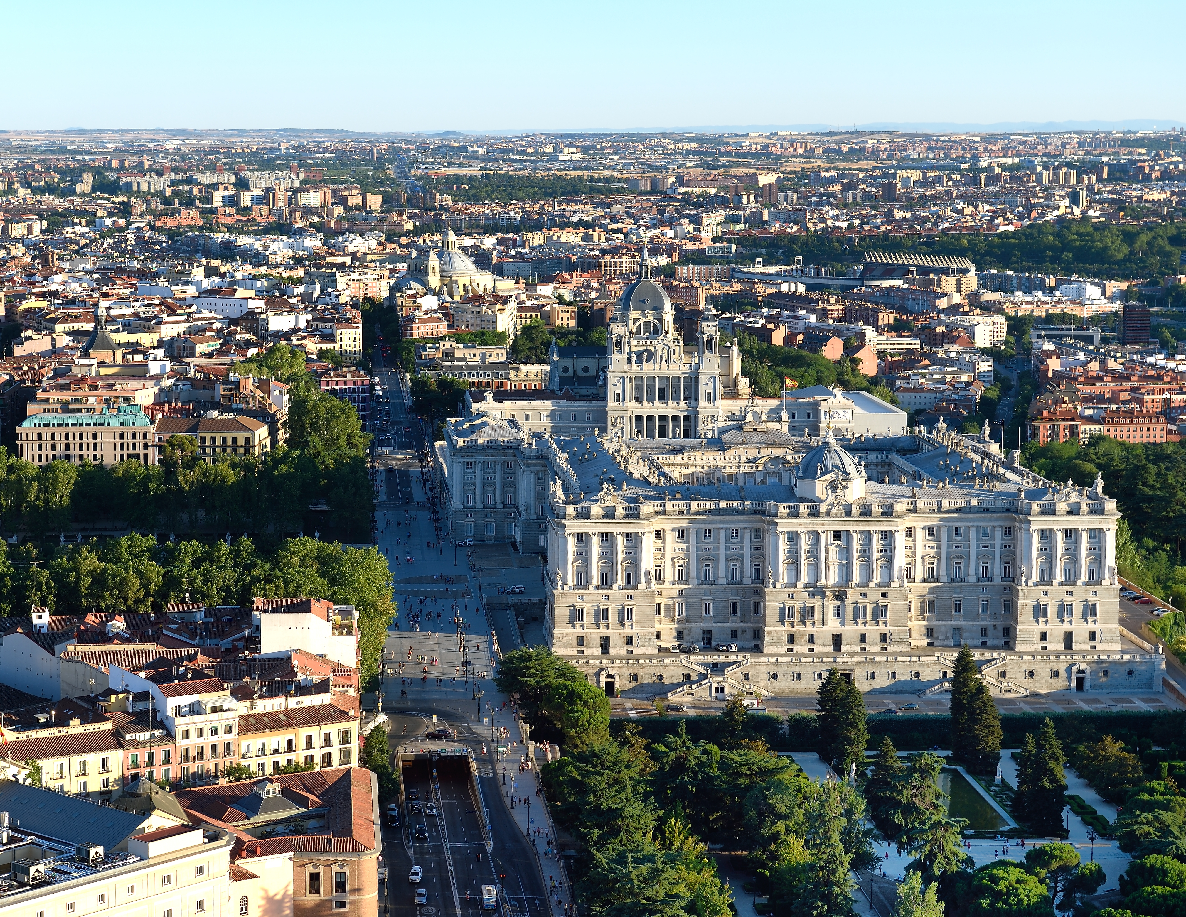 Palacio Real de Madrid